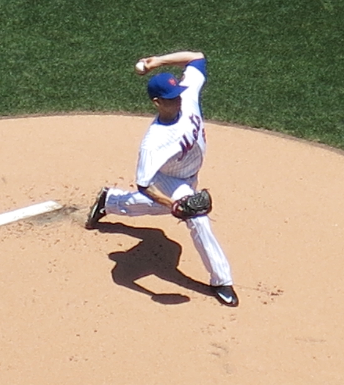 Tommy Milone on May 21, 2017.